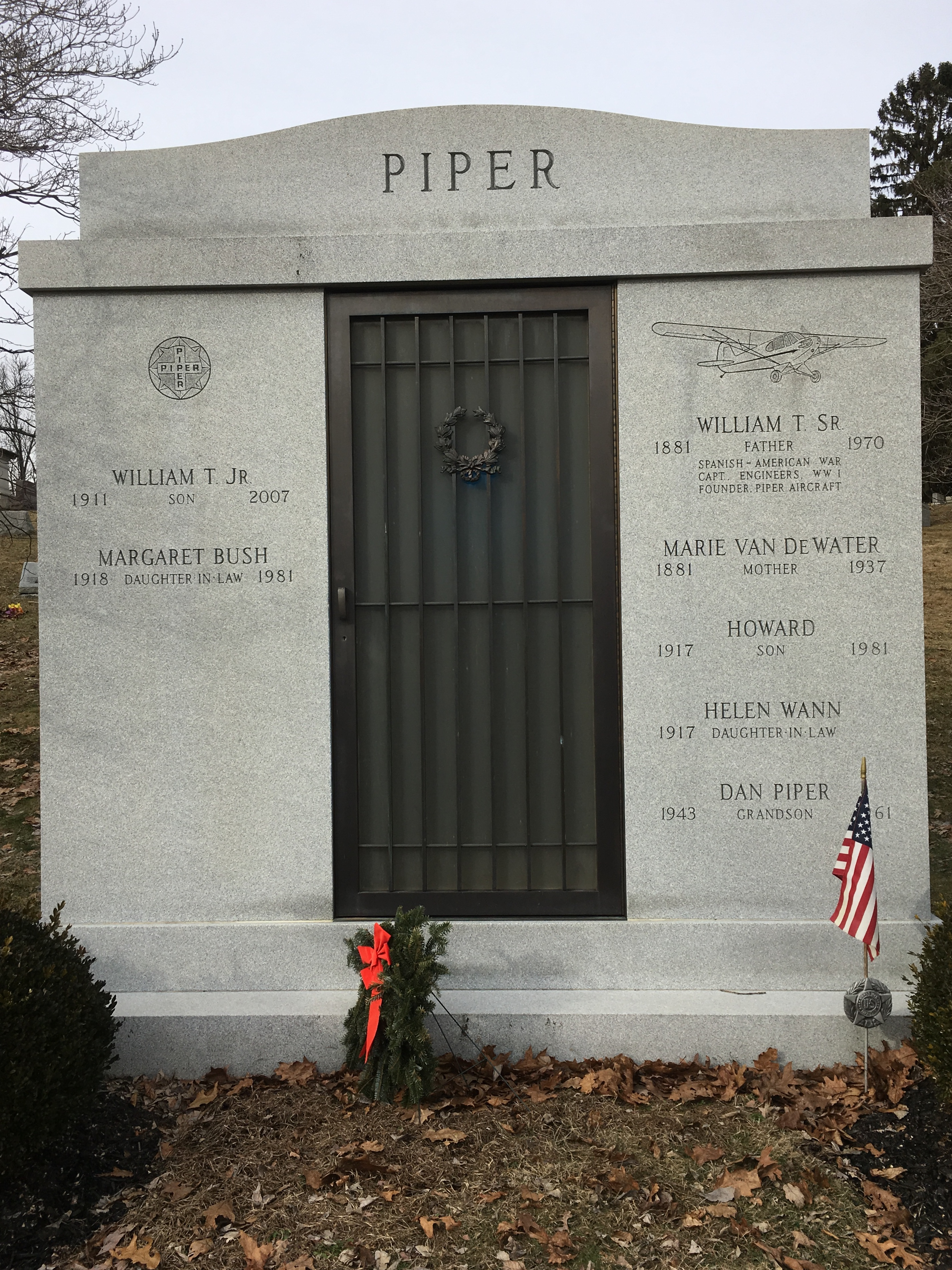 Piper family mausoleum located atop Highland Cemetery in Lock Haven, Pennsylvania, United States.